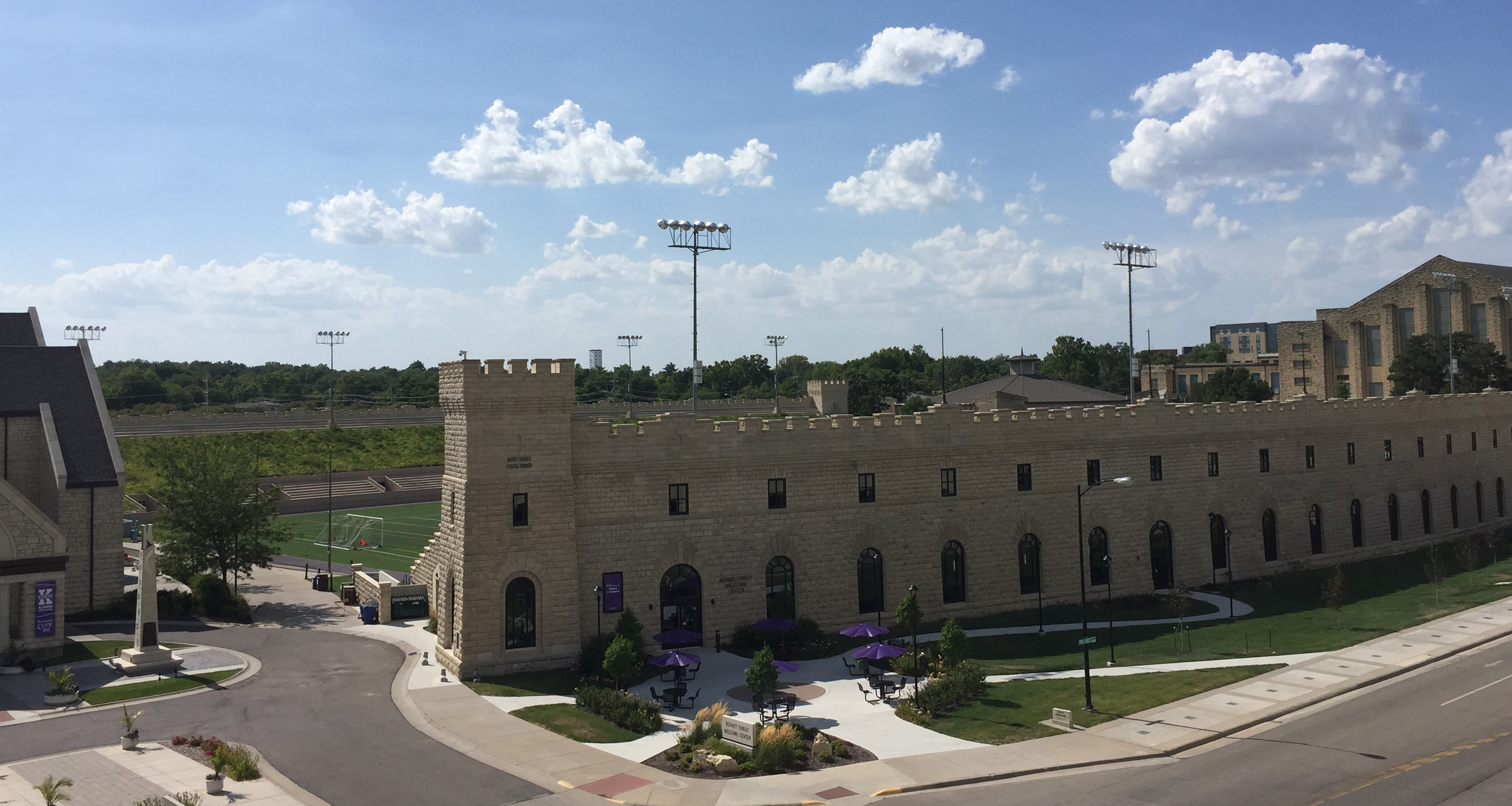 2017 photo of exterior of Memorial Stadium in Manhattan, Kansas.